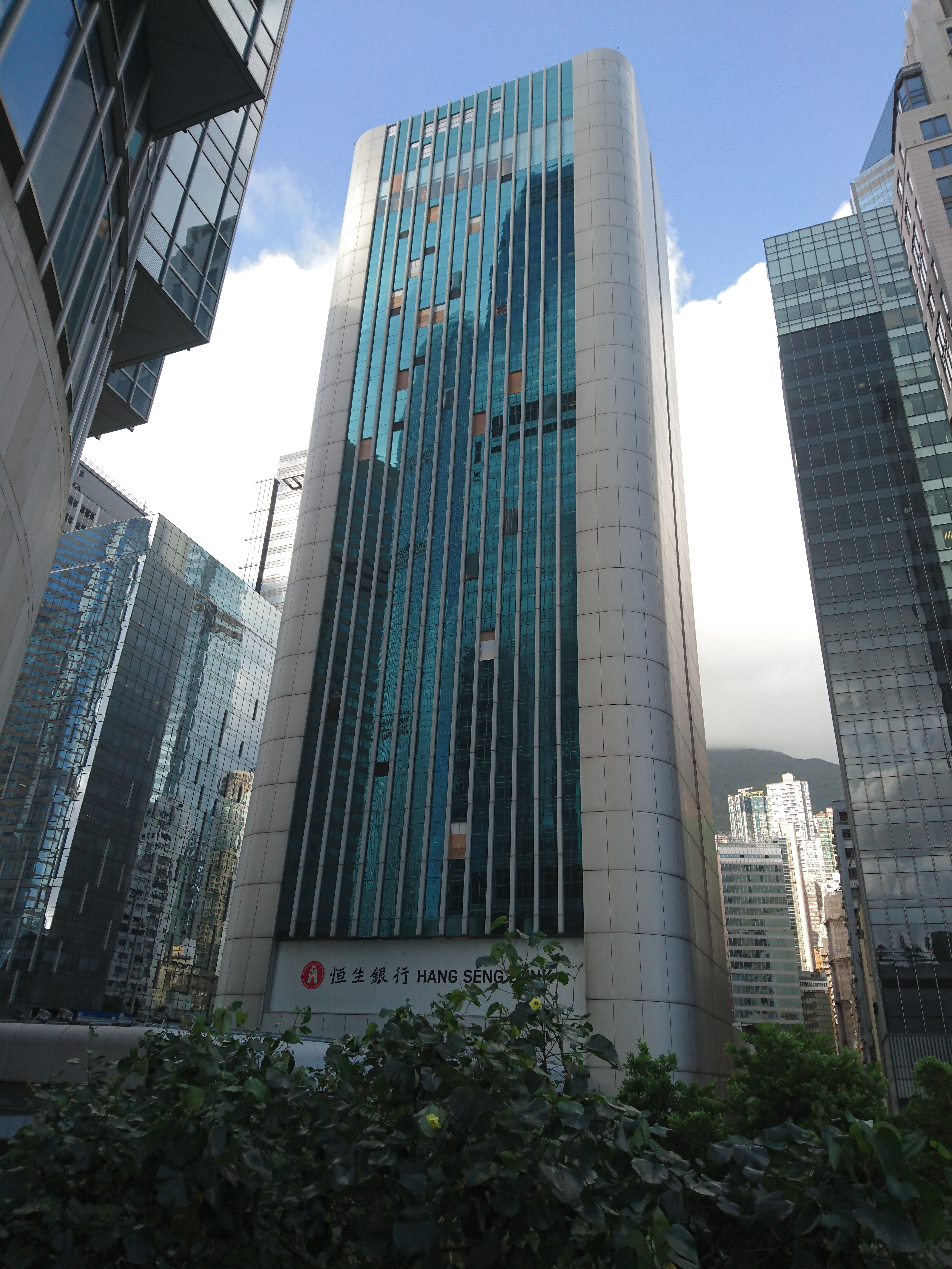 Hang Seng Bank Headquarters Building after Typhoon Hato